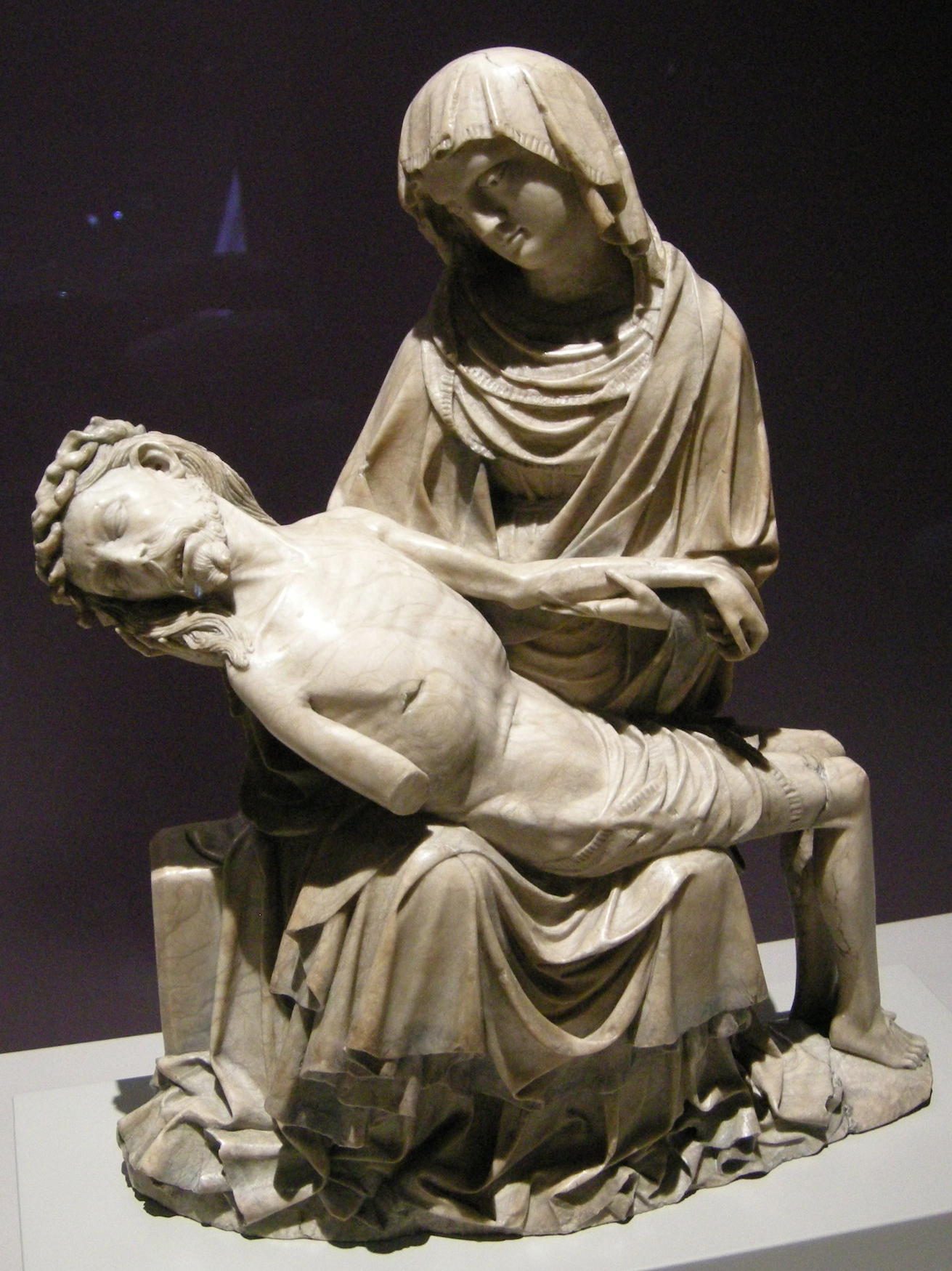 The Virgin with the Dead Christ (Pietà), attributed to the Master of Rimini; carved alabaster; Victoria & Albert Museum; A.28-1960; given by Sir Thomas Barlow. Link